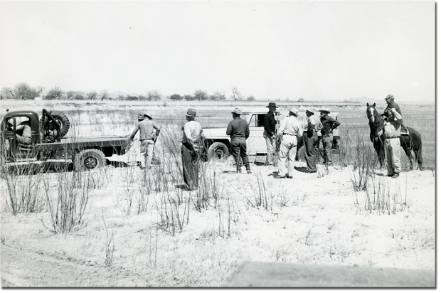 This 1951 photo shows what happened after the Texas Highway Department closed a bridge on the Canadian River near Pampa that had become too dangerous to use. Drivers who took their chances crossing the dry river bed didn’t always make it and had to be hauled out by tow trucks.